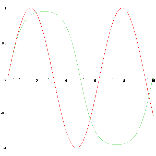 Jacobi Elliptic Funcitons snk(u) Red line k = 0.05 Green line k = 1.05